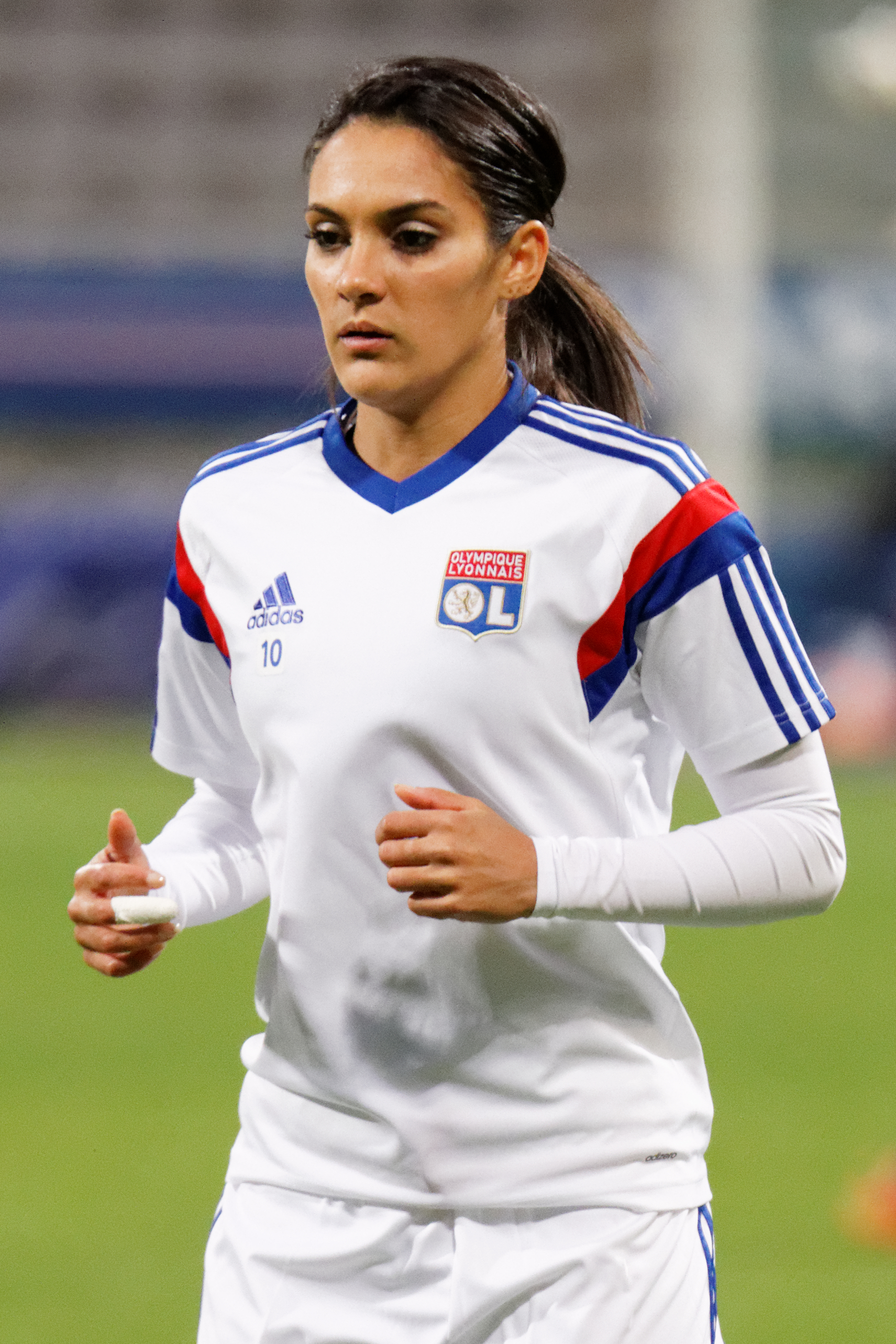 UEFA Women's Champions League, PSG - Lyon, 8 November 2014.